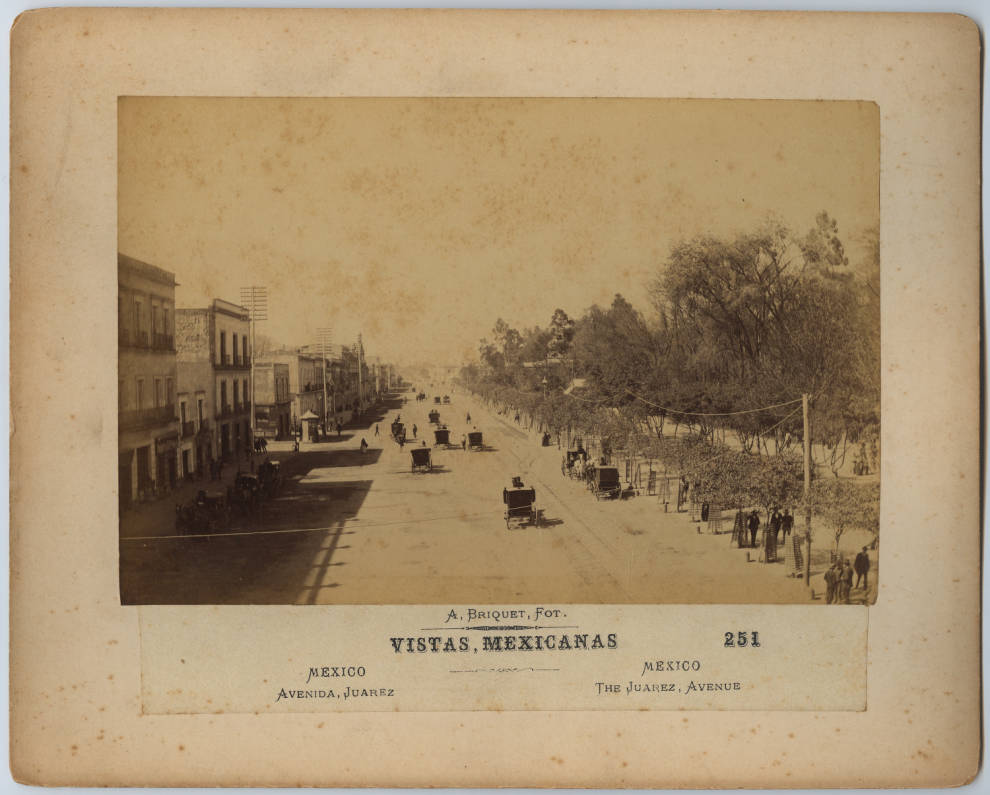 Title: Mexico, Avenida Juarez. Alternative Title: Mexico, The Juarez Avenue. Creator: Briquet, Abel Date: ca. 1880 Part Of: Views in Mexico Place: Mexico City (Mexico D.F.), Mexico Physical Description: 1 photographic print: albumen; 13 x 19.8 cm on 20 x 25.2 cm mount File: ag1985_0372_251_vistas_opt.jpg Rights: Please cite DeGolyer Library, Southern Methodist University when using this file. A high-resolution version of this file may be obtained for a fee. For details see the web page. For other information, . For more information and to view the image in high resolution, see: View the Mexico: Photographs, Manuscripts, and Imprints